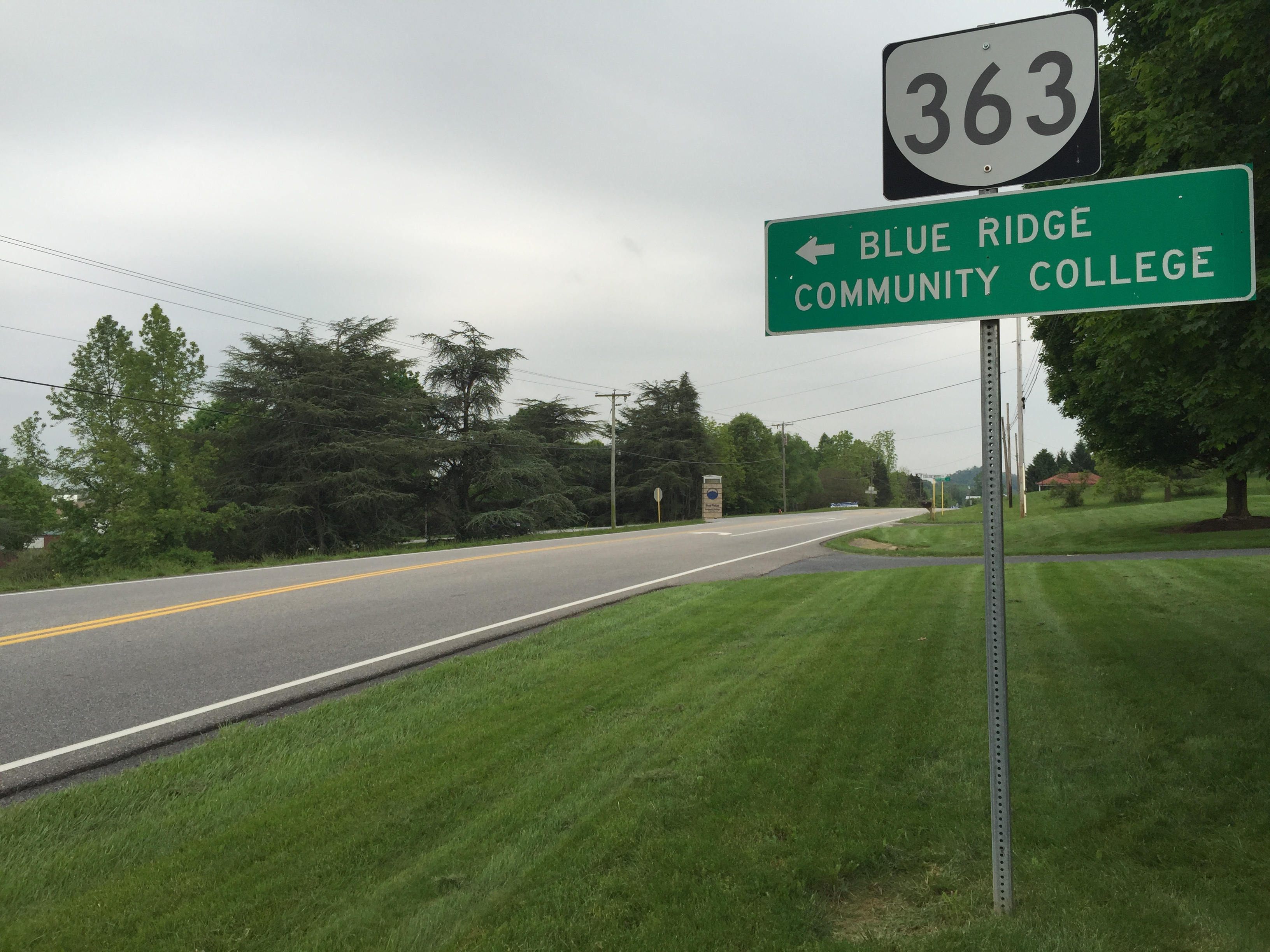 View south along Lee Highway (U.S. Route 11) at College Lane (Virginia State Route 363) in Weyers Cave, Augusta County, Virginia